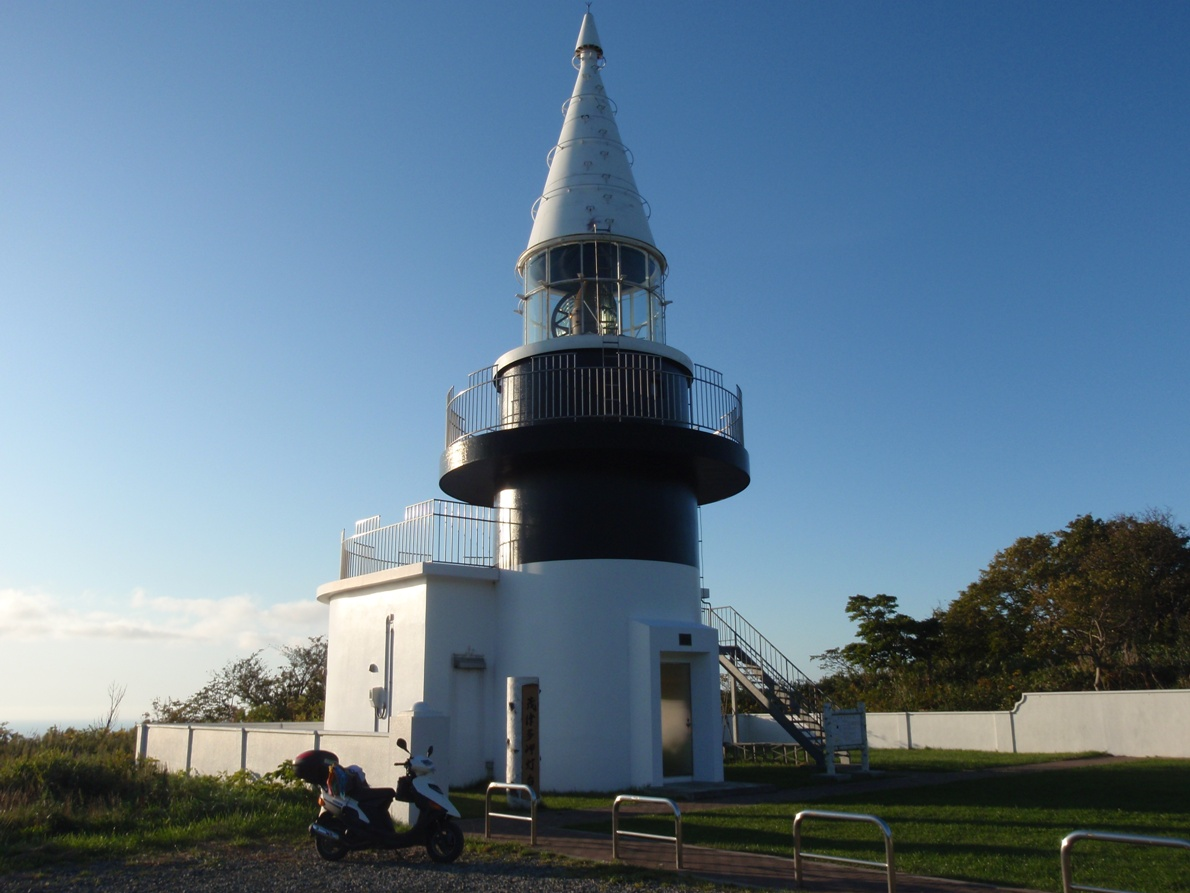 Motta cape lighthouse in Setana, Hokkaido